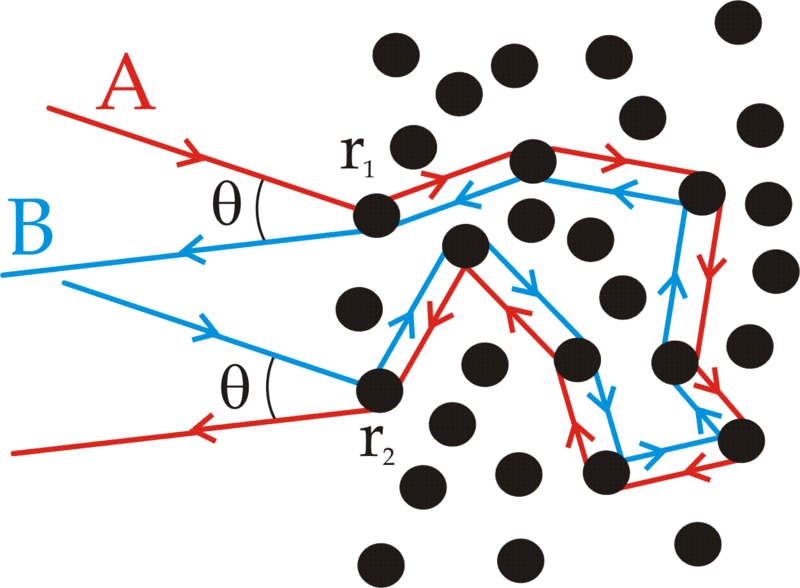 Schematic representation of time-inversion symmetric paths in coherent backscattering of light by a random medium